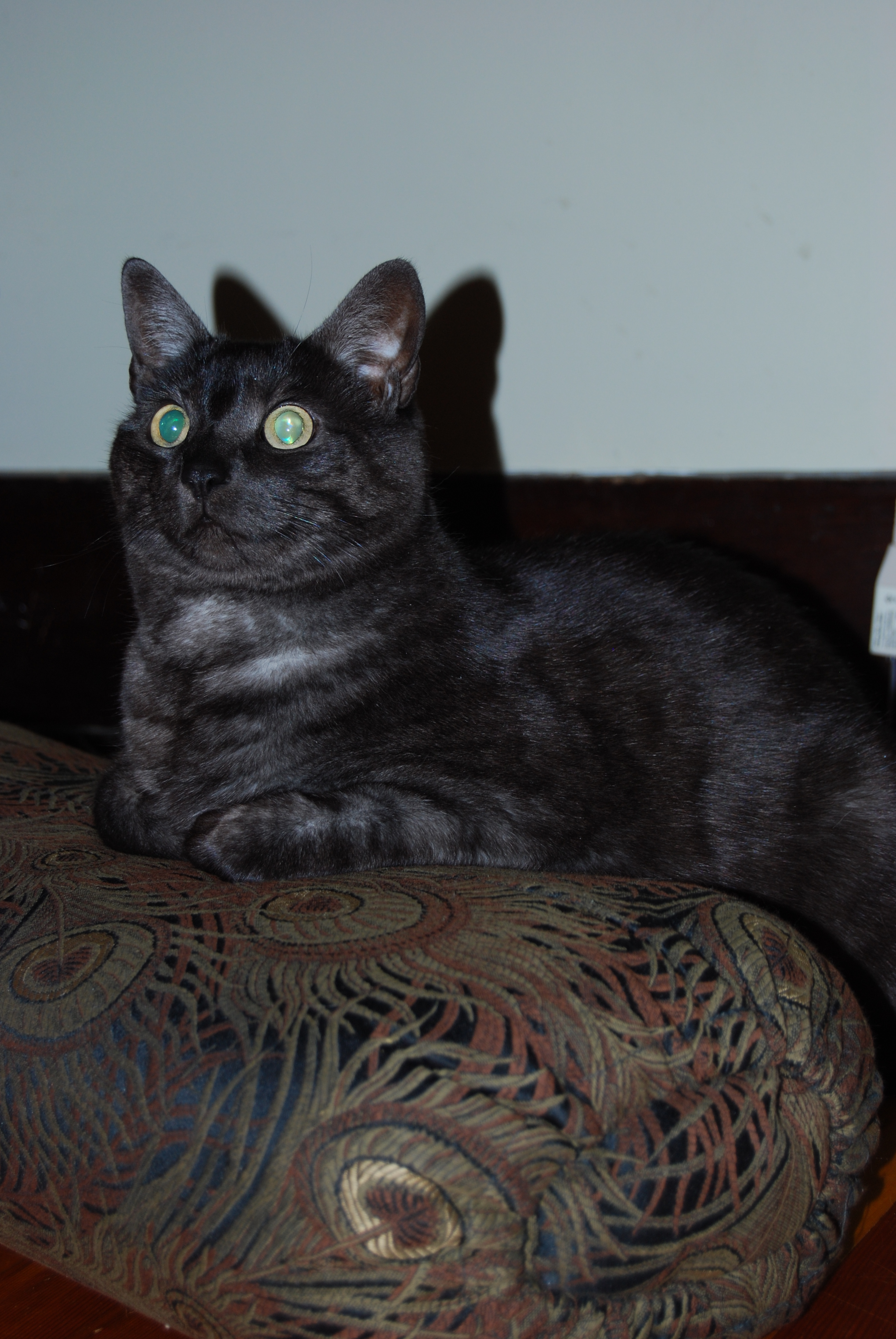 Asian cat type; Asian Smoke (black) colour